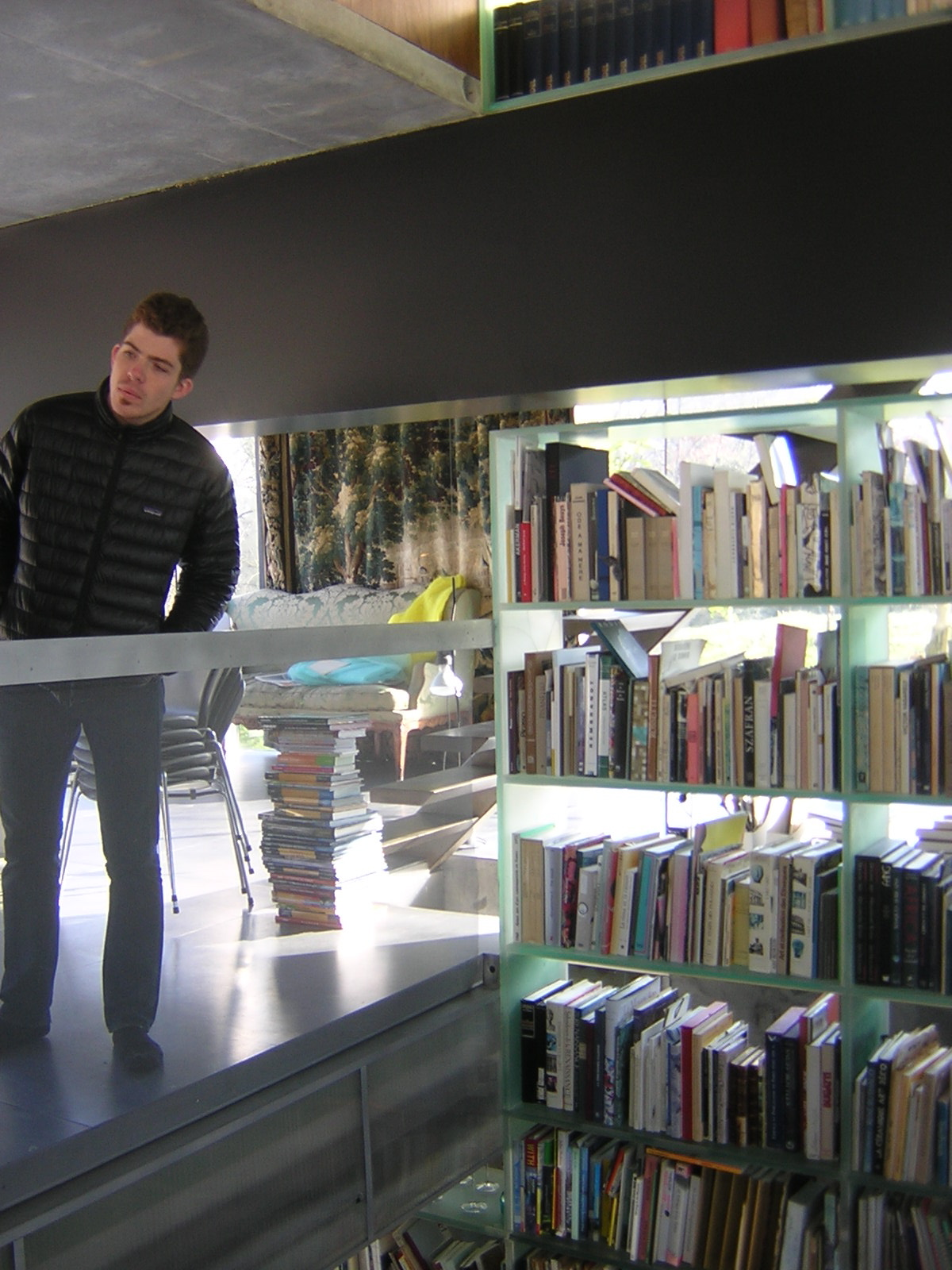 Maison à bordeaux by Koohaas